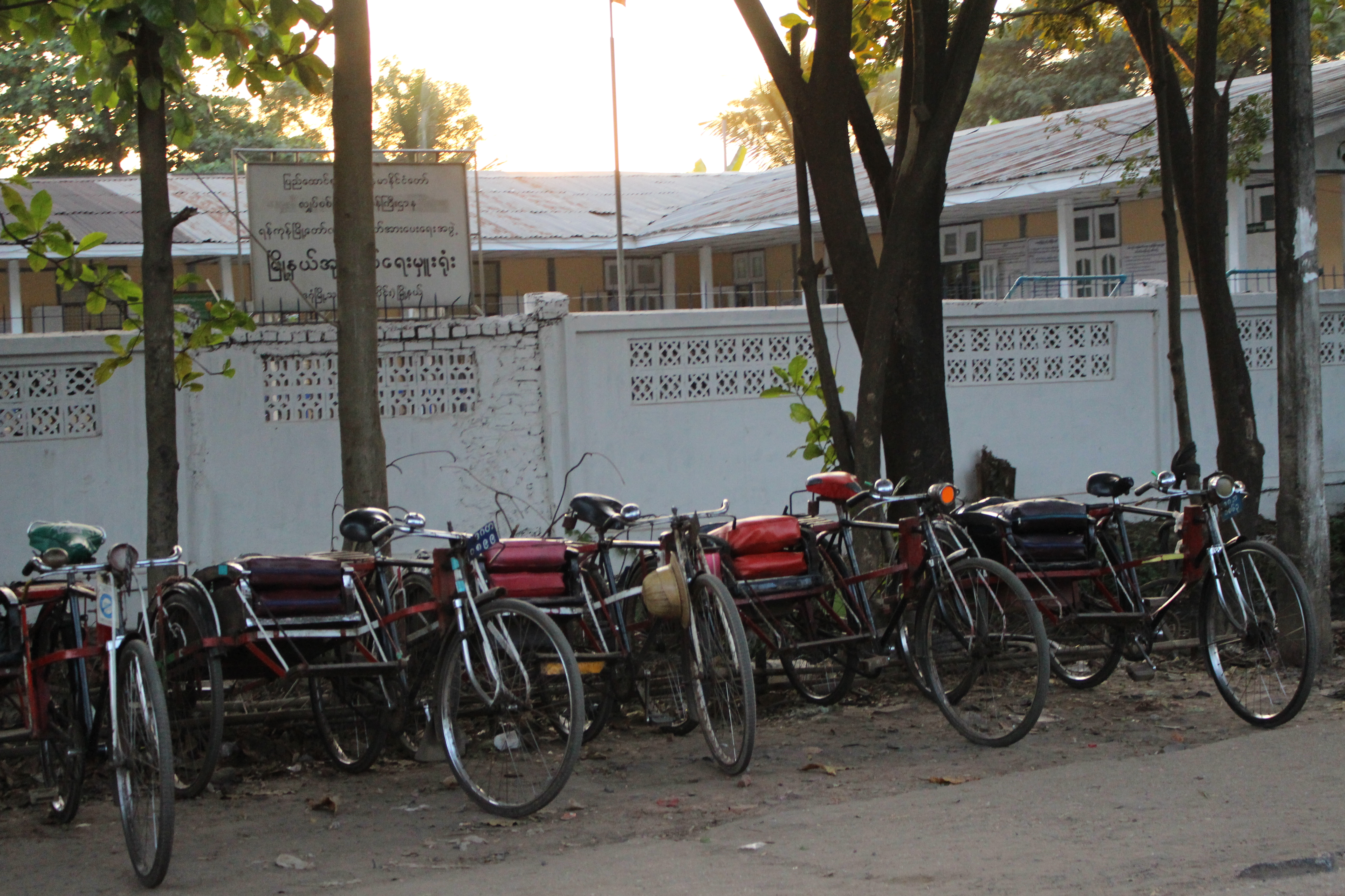 A trishaw stand in Yangon, Myanmar.